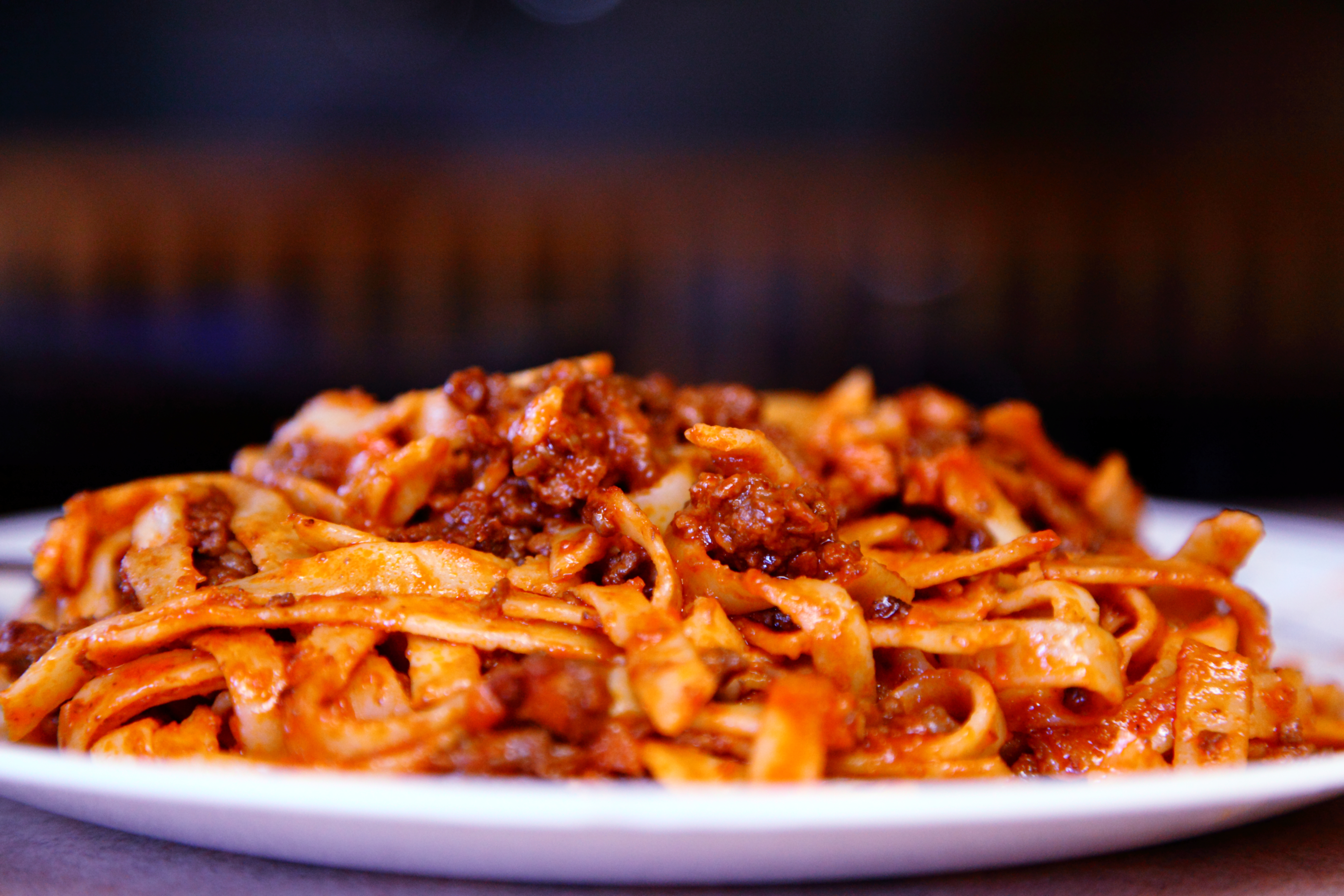 Photographer, D. Sharon Pruitt Owner of Pink Sherbet Photography Official Website, Contact Email, FREE This is under a creative commons license! Please give credit to "D. Sharon Pruitt".